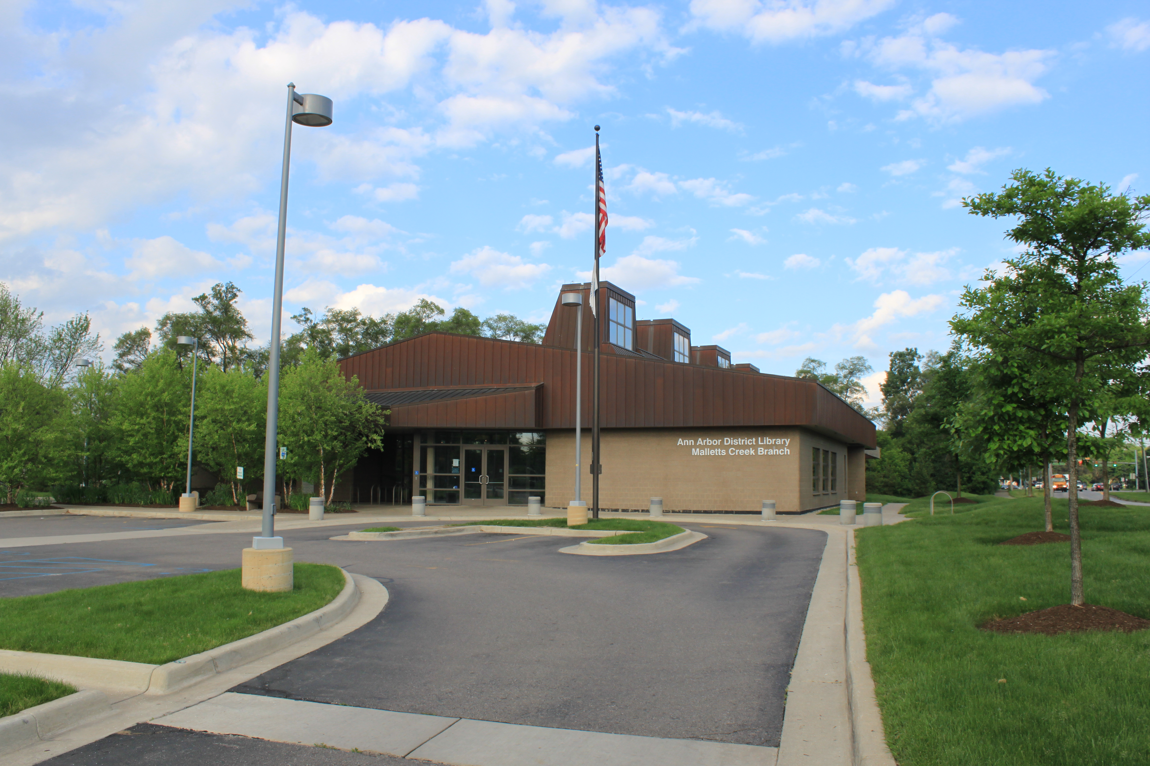 Ann Arbor District Library, Malletts Creek Branch, 3090 Eisenhower Parkway, Ann Arbor, Michigan 48108